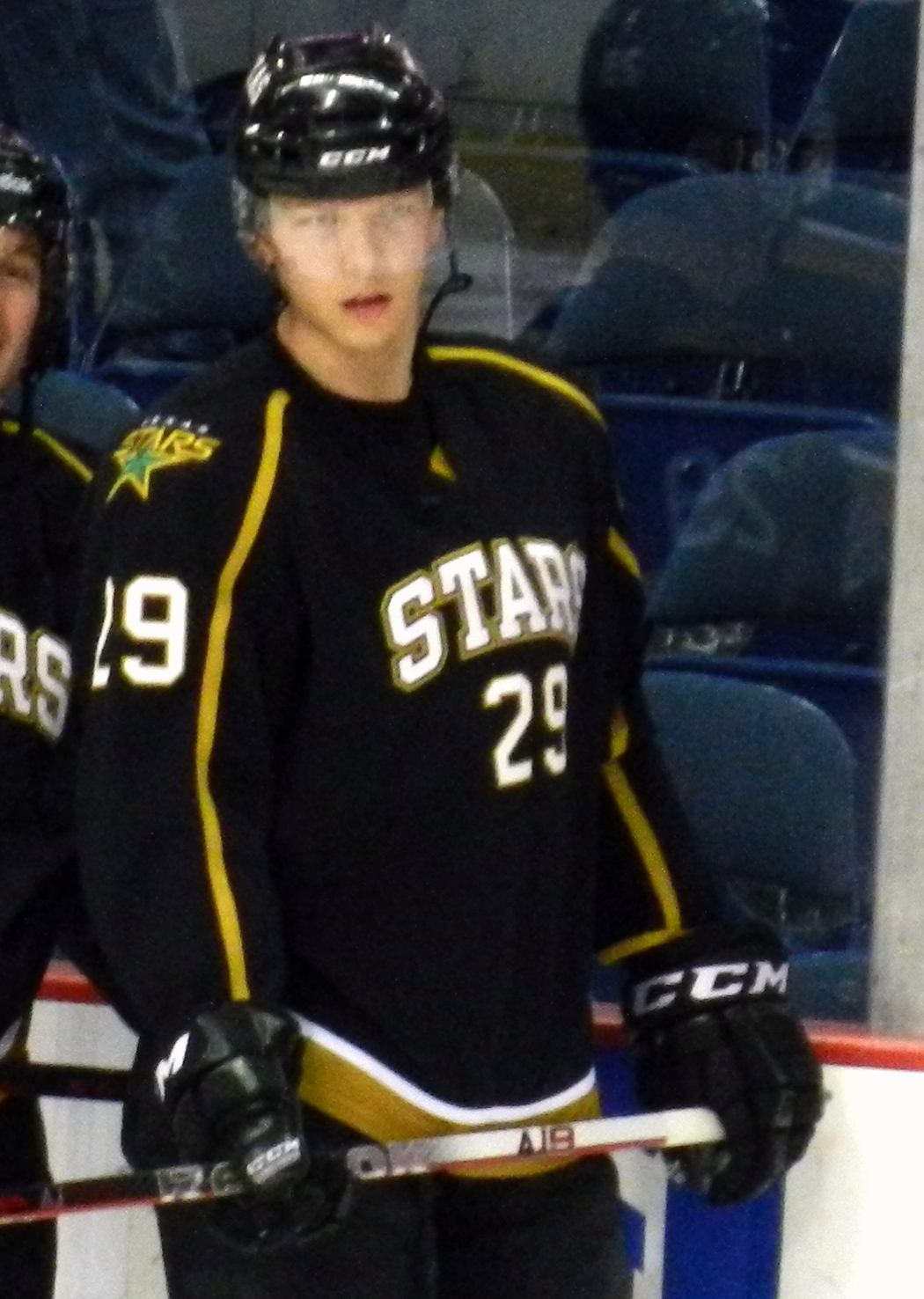 Alex Chiasson playing for the American Hockey League's Texas Stars